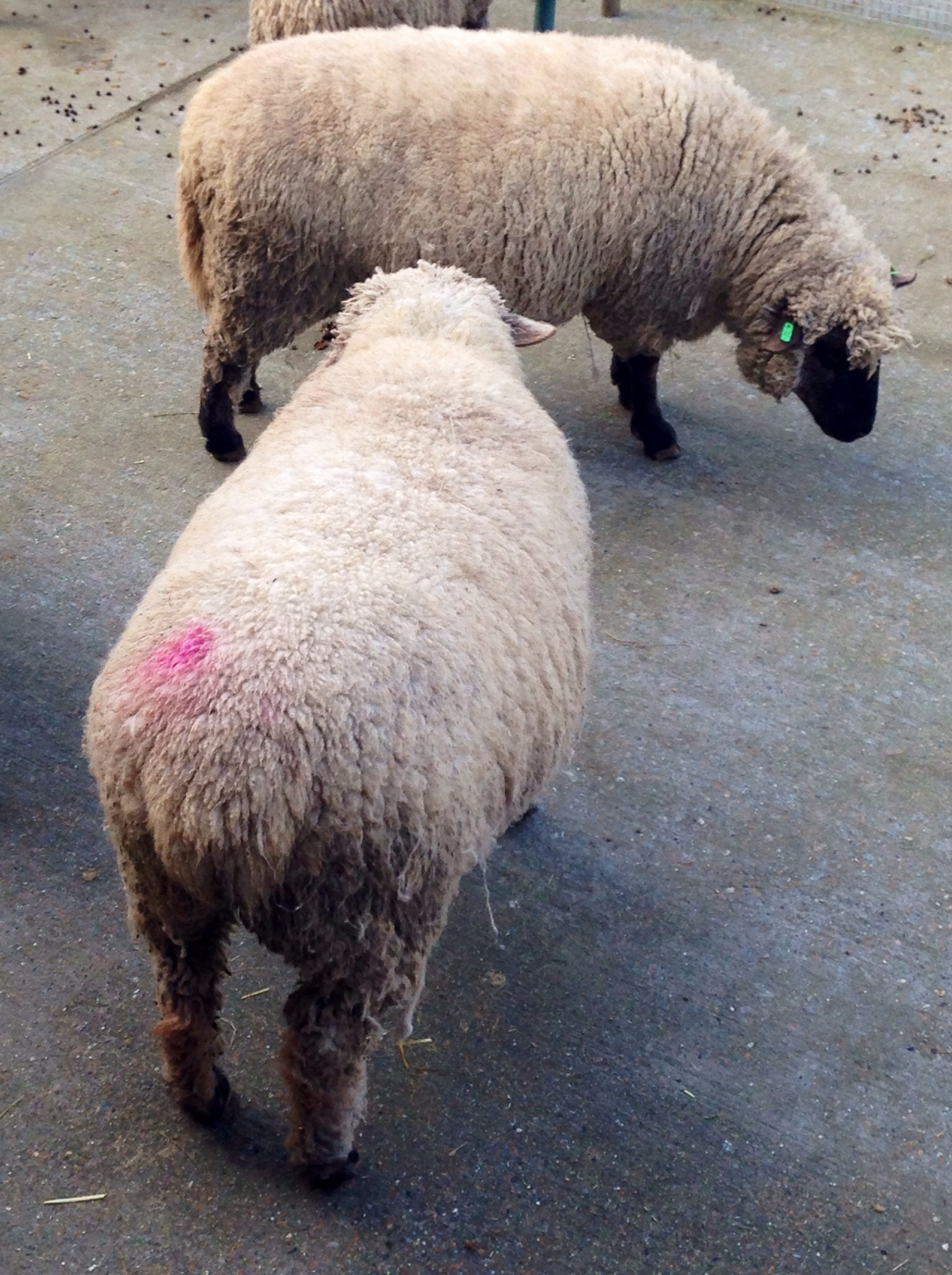 Oxford Down sheep